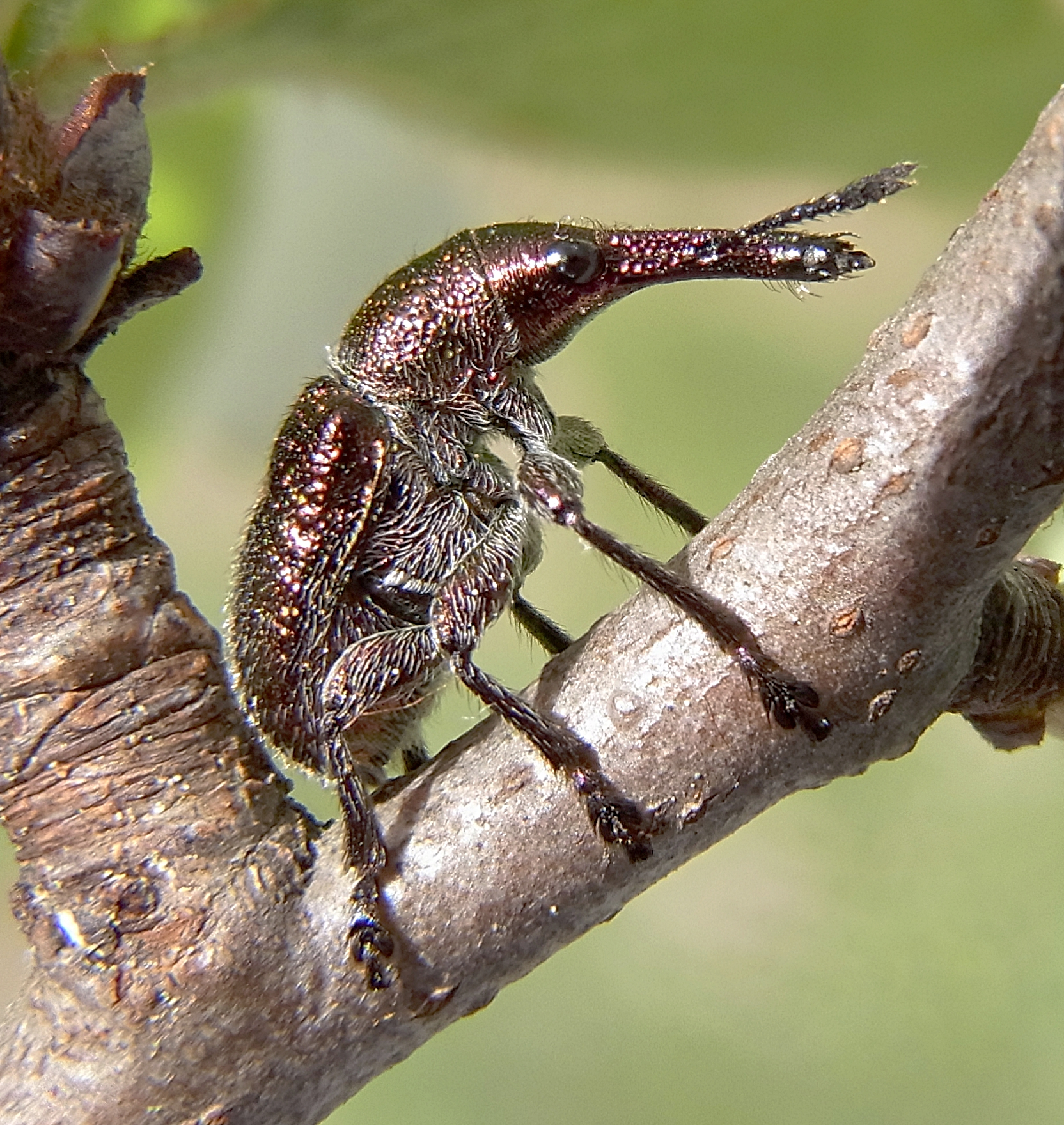 Rhynchites auratus from Southern France north of Montpellier on apple tree at 2011-04-04